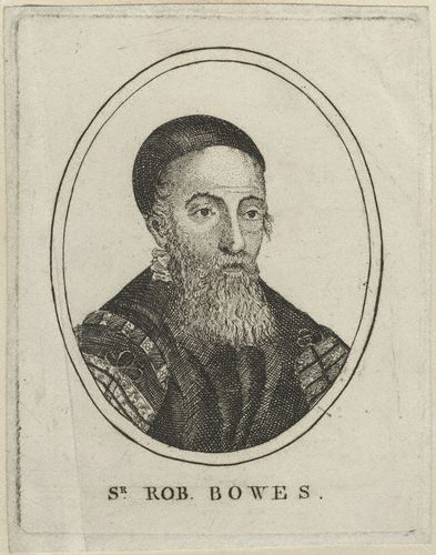 Portrait of Sir Robert Bowes (1495?-1554).